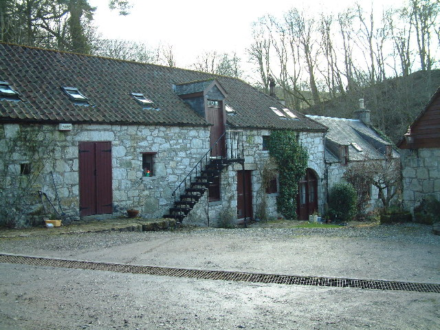 Cottages at Muckhart Mill.